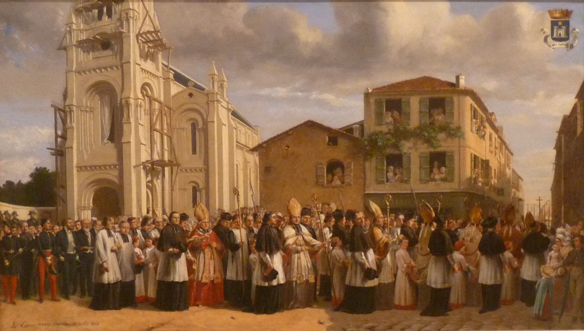 city museum of Angoulême, France